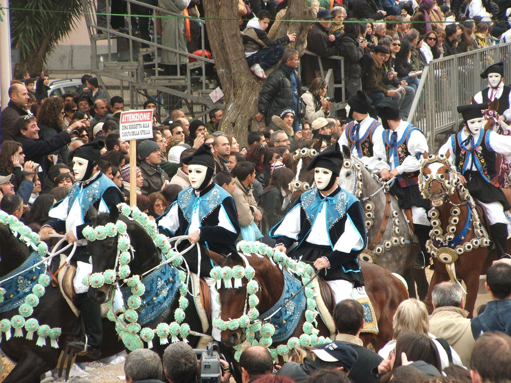 Ancient knights fest in Oristano